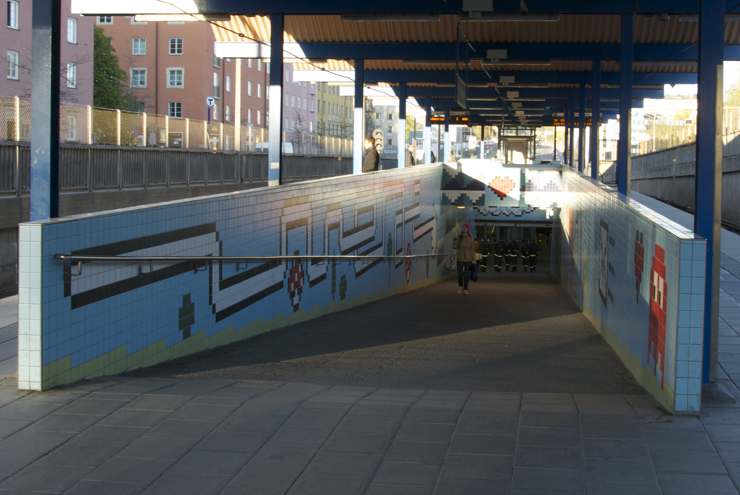 Thorildsplan Metro station.